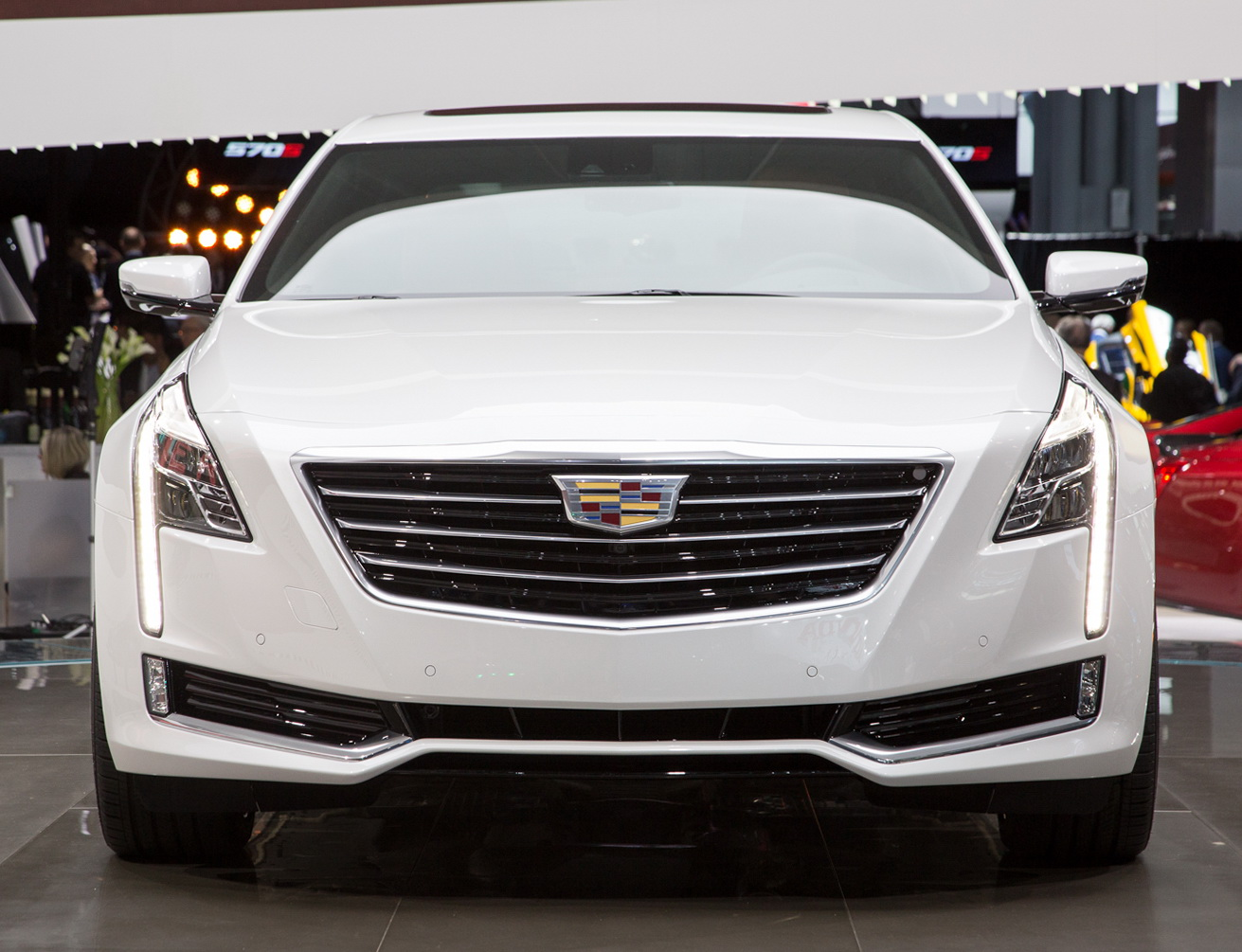 Cadillac CT6 at the 2015 NYIAS